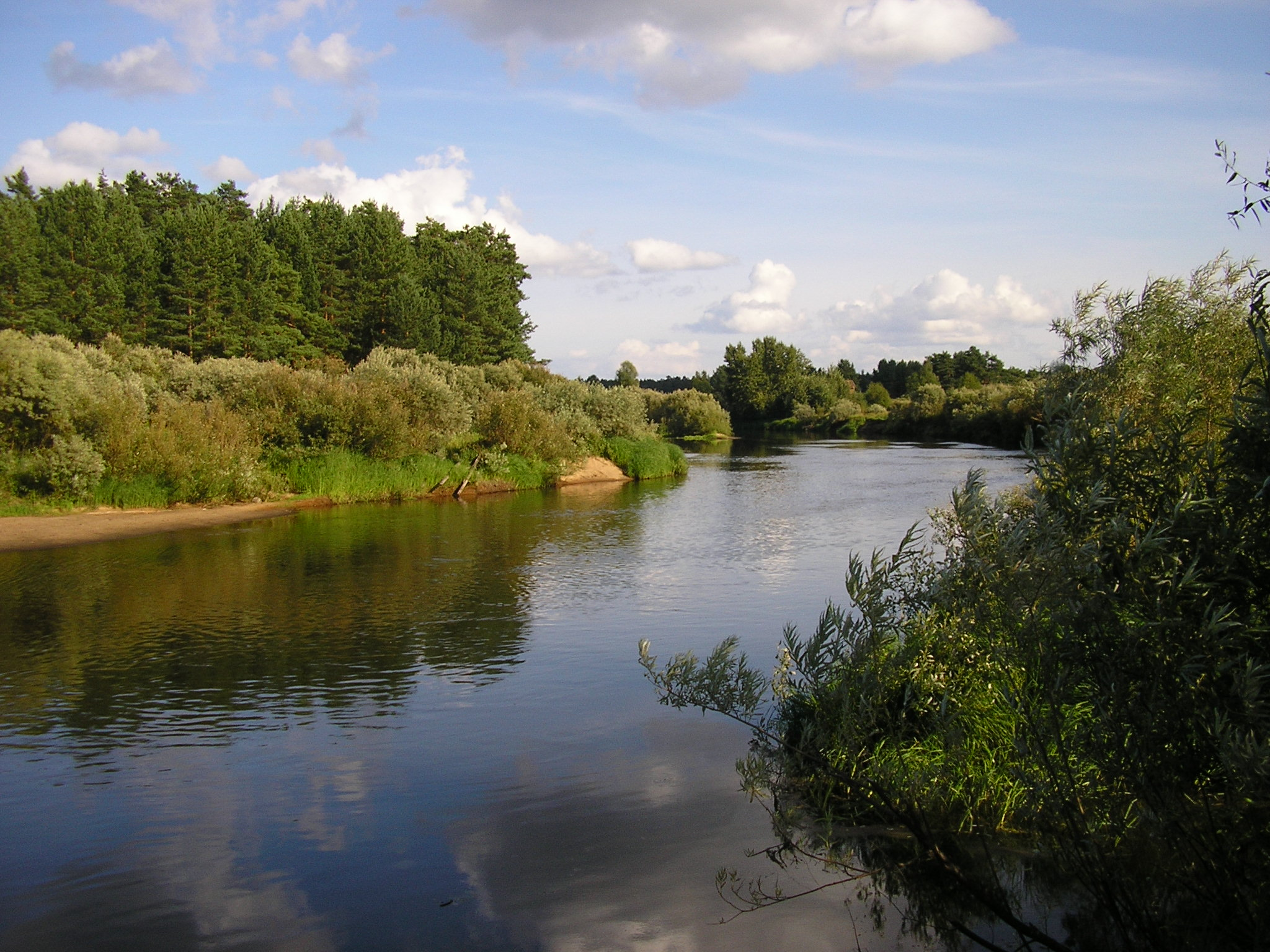 Volchina river near Maksatikha